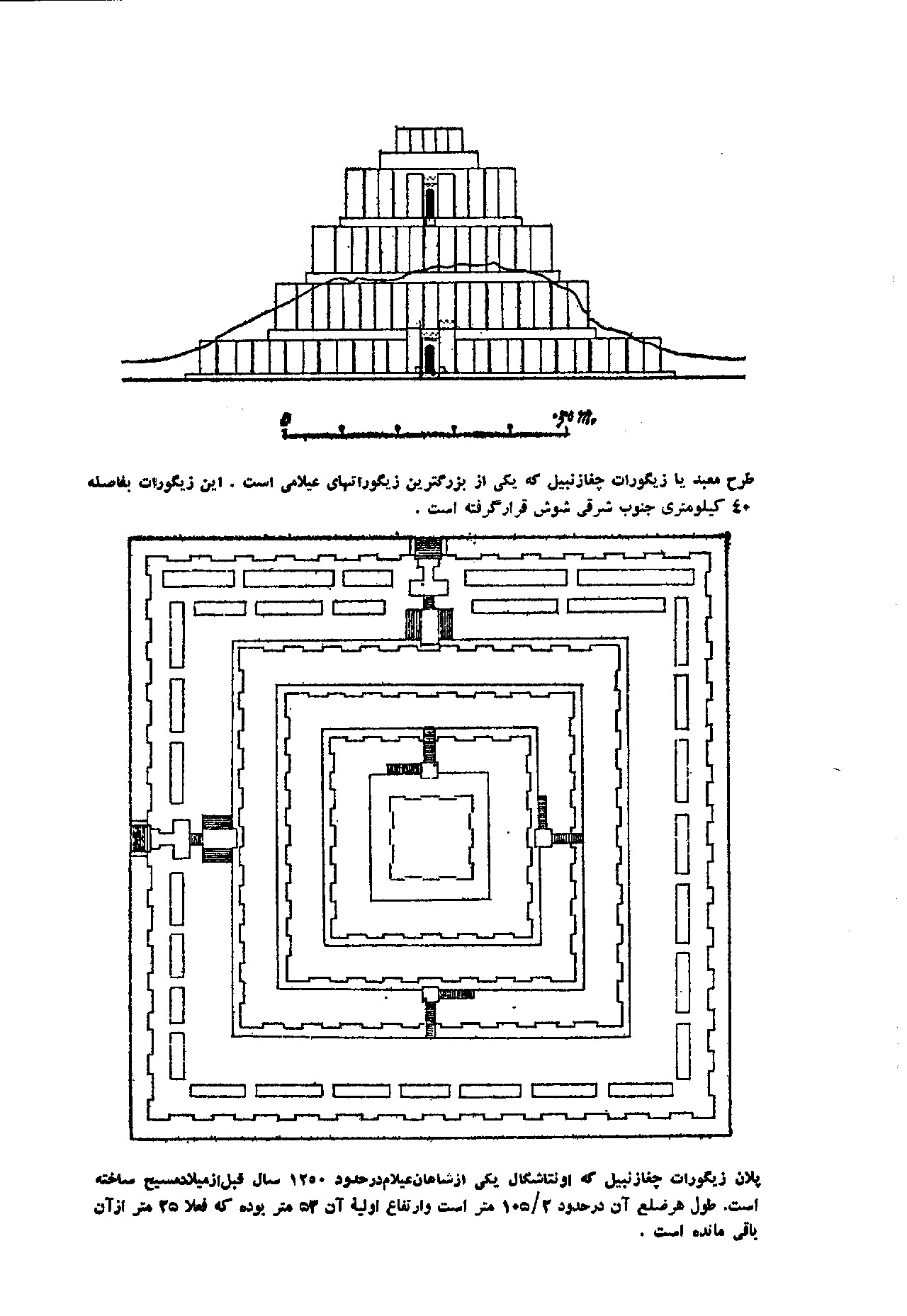 پلان و نمای زیگورات چغازنبیل